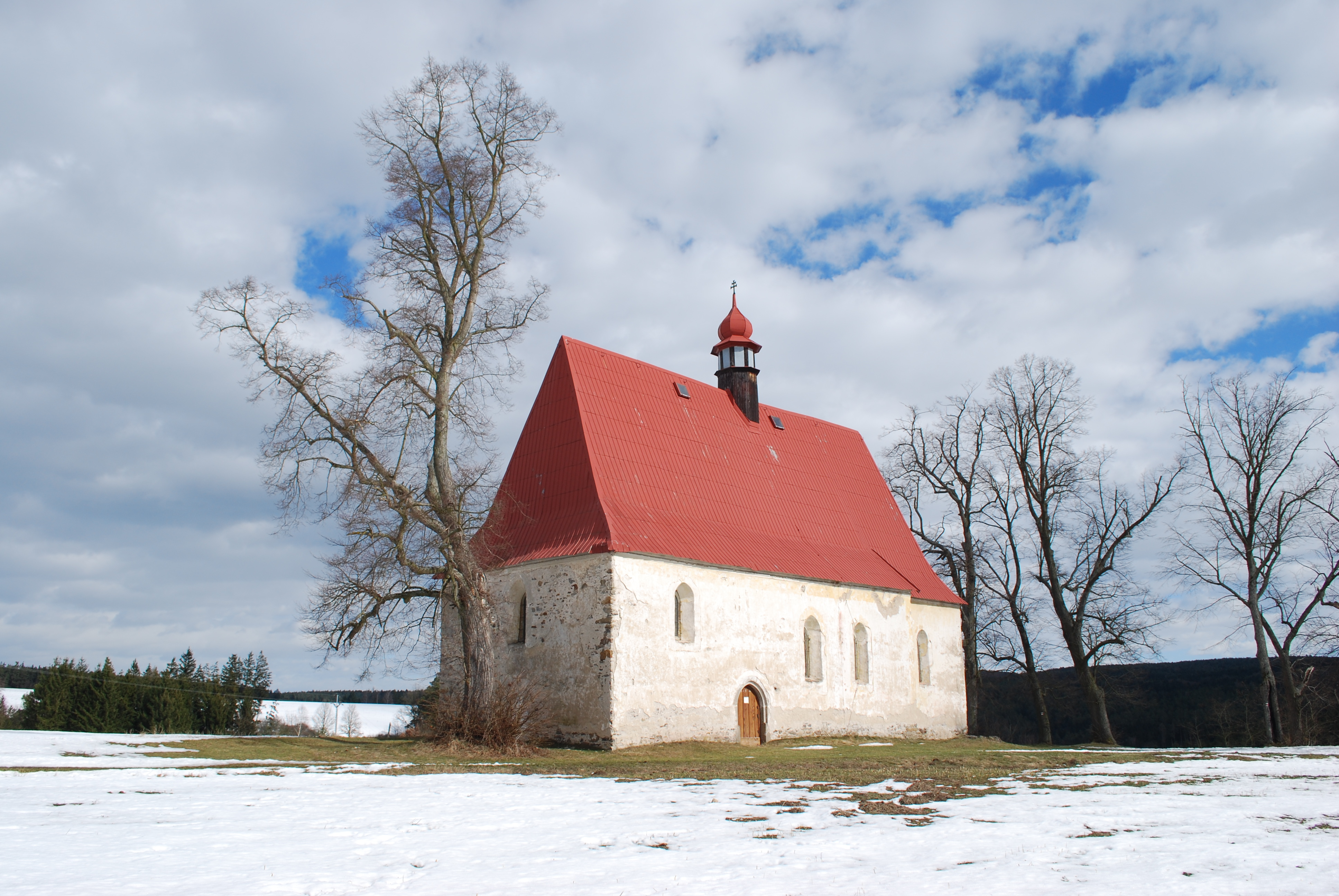 Dobronice u Bechyně village in Tábor District, Czech Republic. Church. This photograph was taken within the scope of the 'Czech Municipalities Photographs' grant.